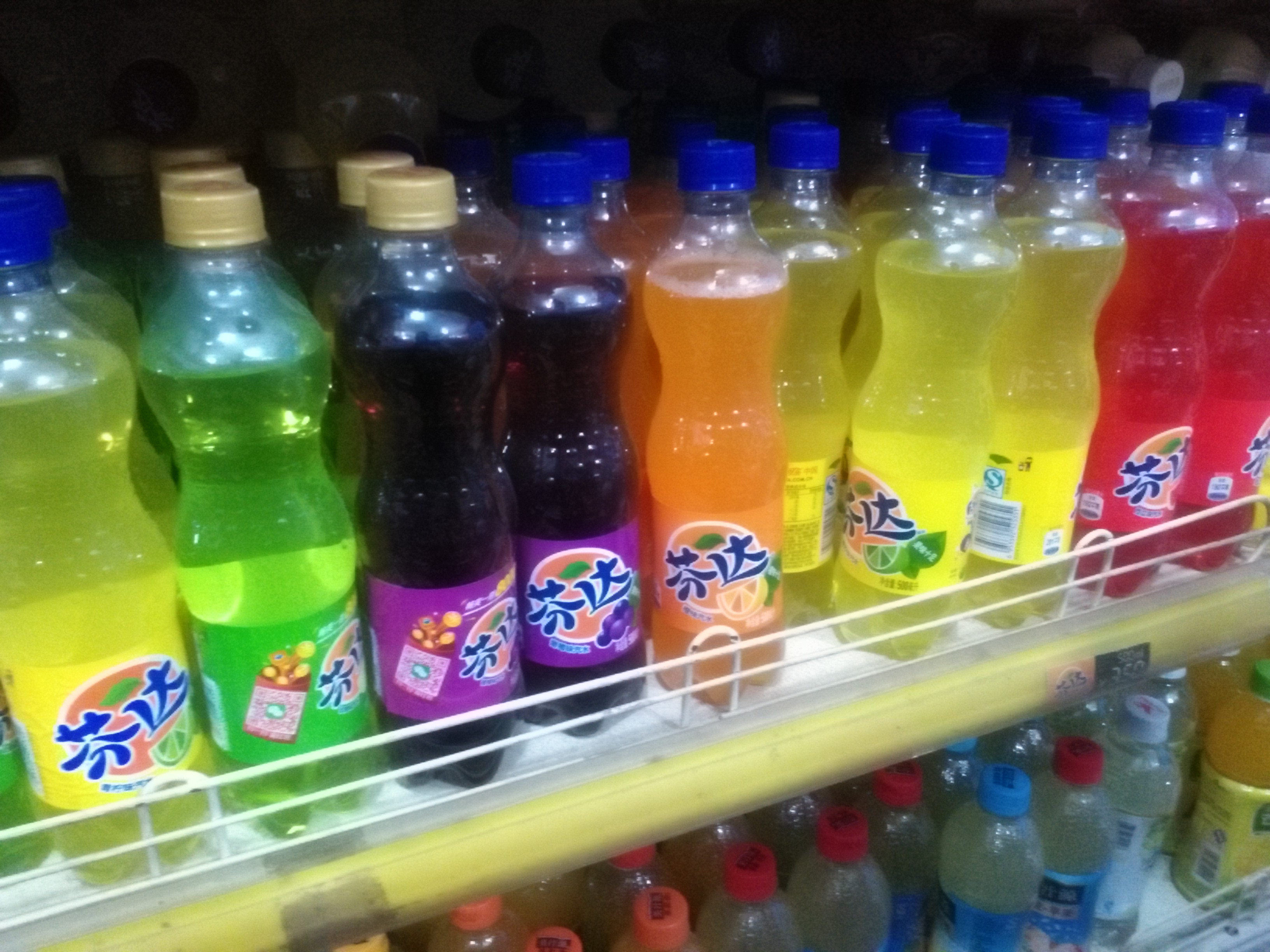 Fanta bottles